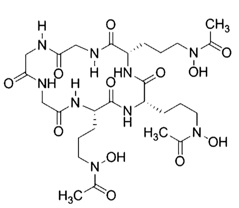 Structure of ferrichrome